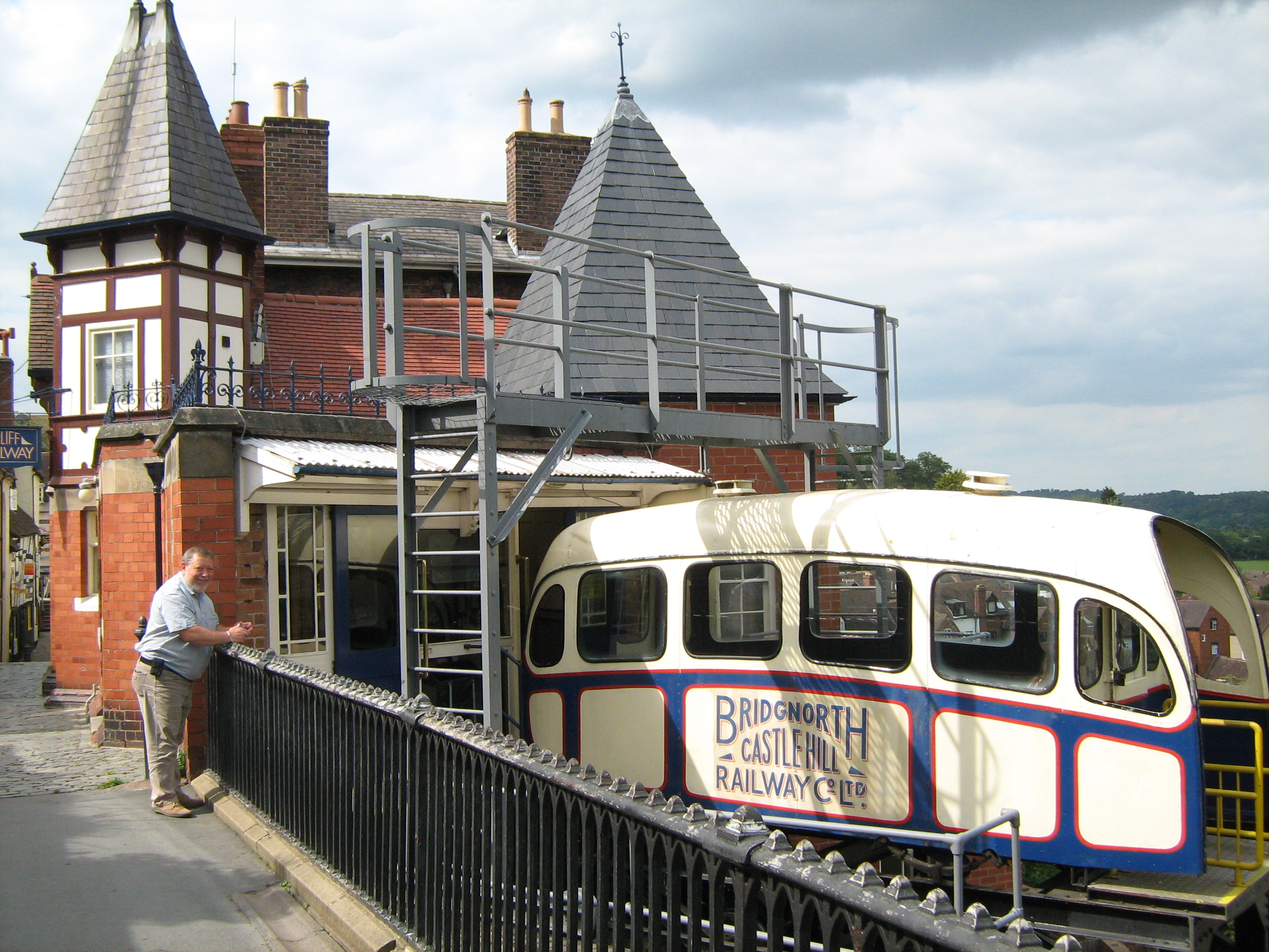 One of the two carts at the top station